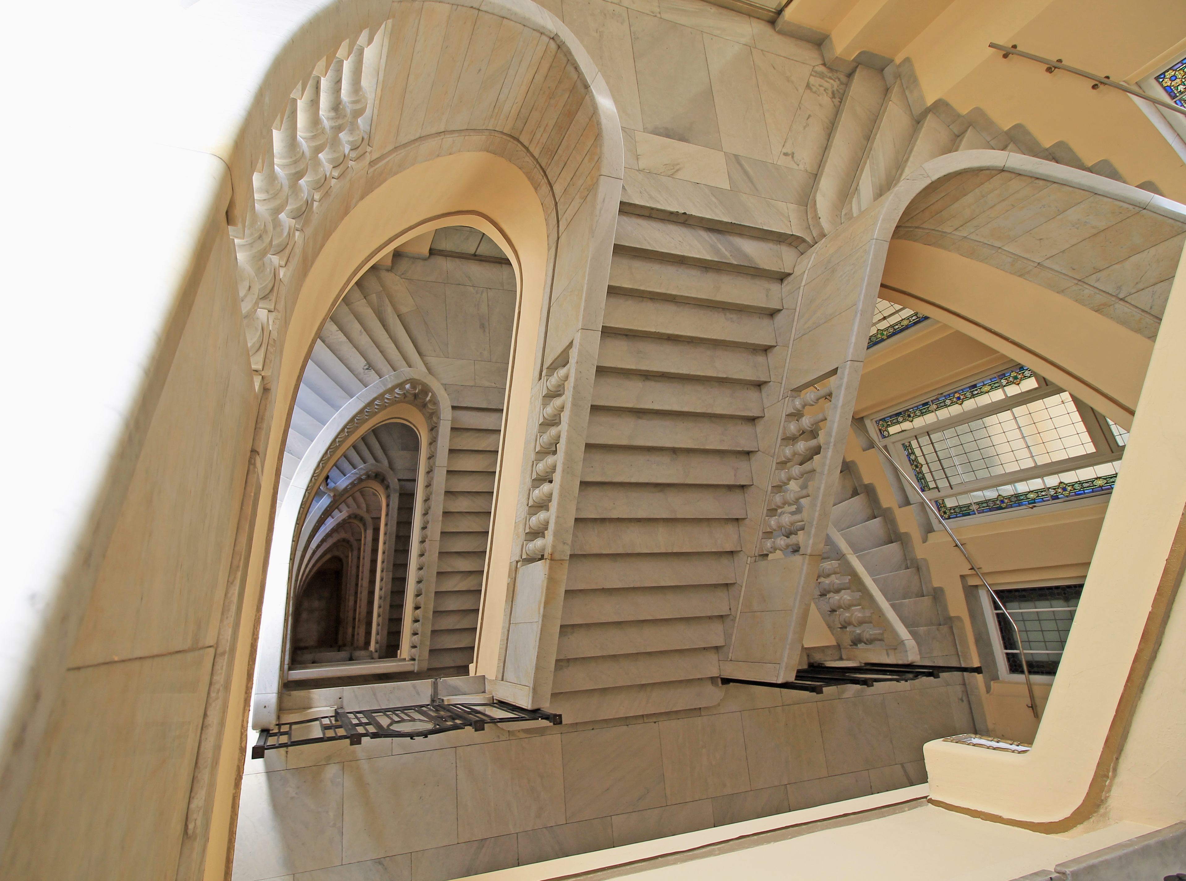 The staircase of Círculo de Bellas Artes in Madrid (Spain).